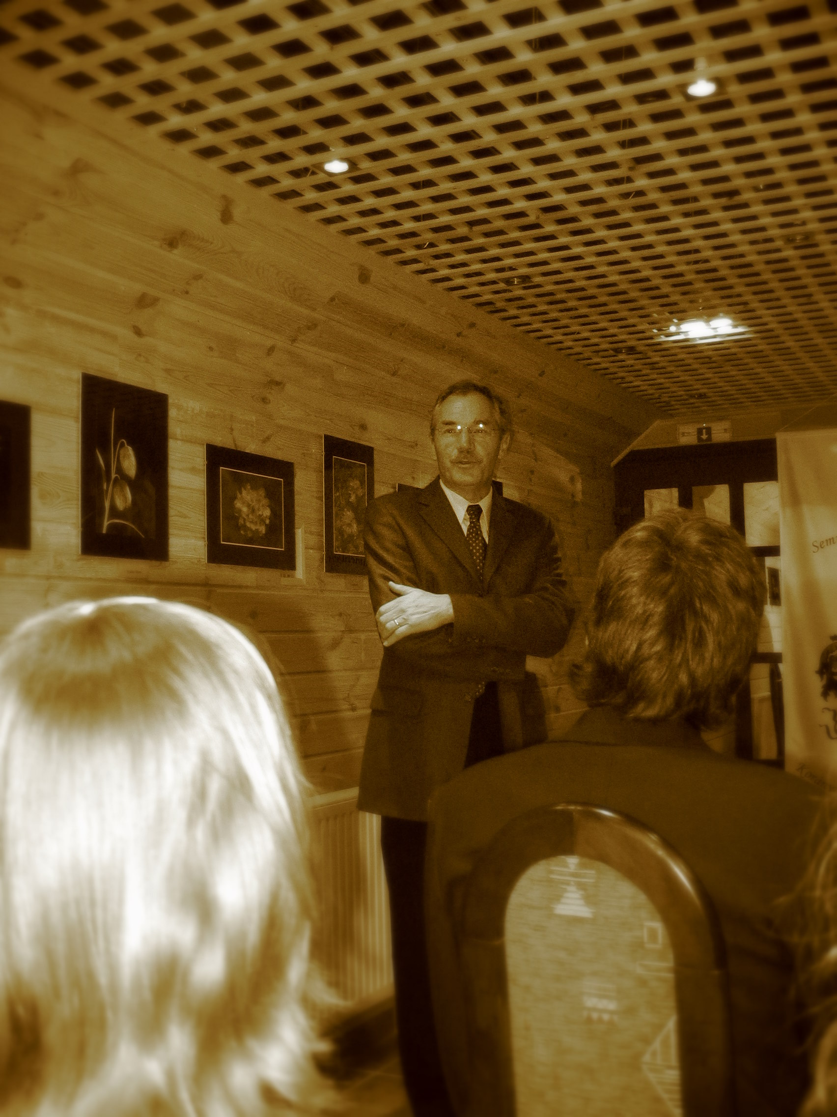 This image about the leader of Semmelweis University, Budapest: Tivadar Tulassay.